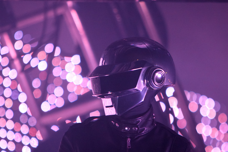 Thomas Bangalter at the 2006 Bang Music Festival in Miami, FL